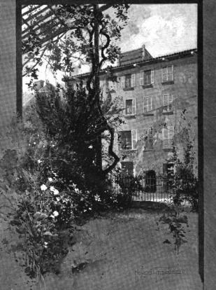 A sketch of Casa Buonaparte that appeared in the 1895 edition of The English Illustrated Magazine.